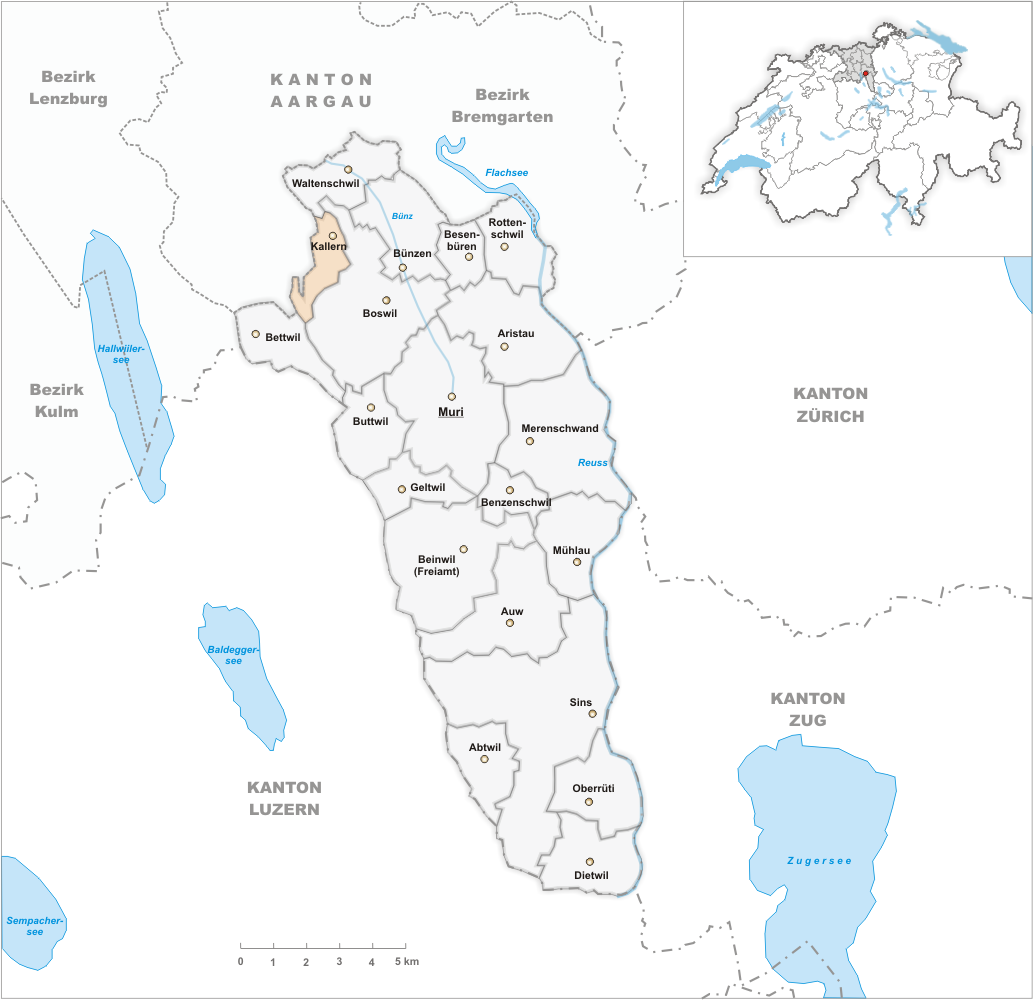 Municipality Kallern